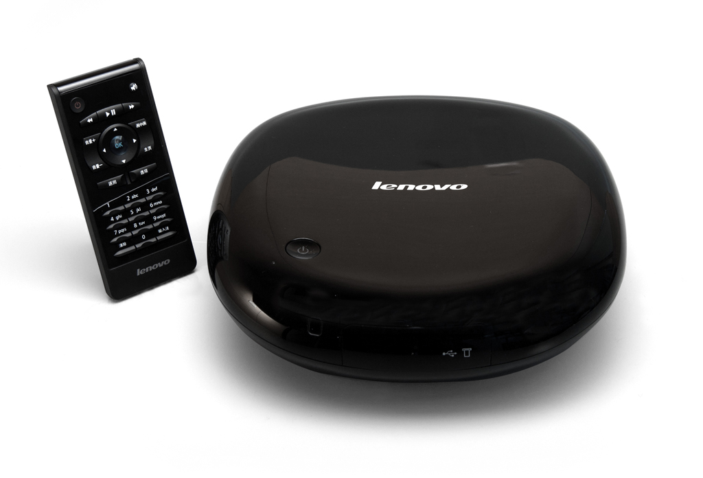 The Lenovo A30 which has been jointly launched by Lenovo and BesTV New Media is powered by the VIA Nano platform. Seen here from the front with remote.